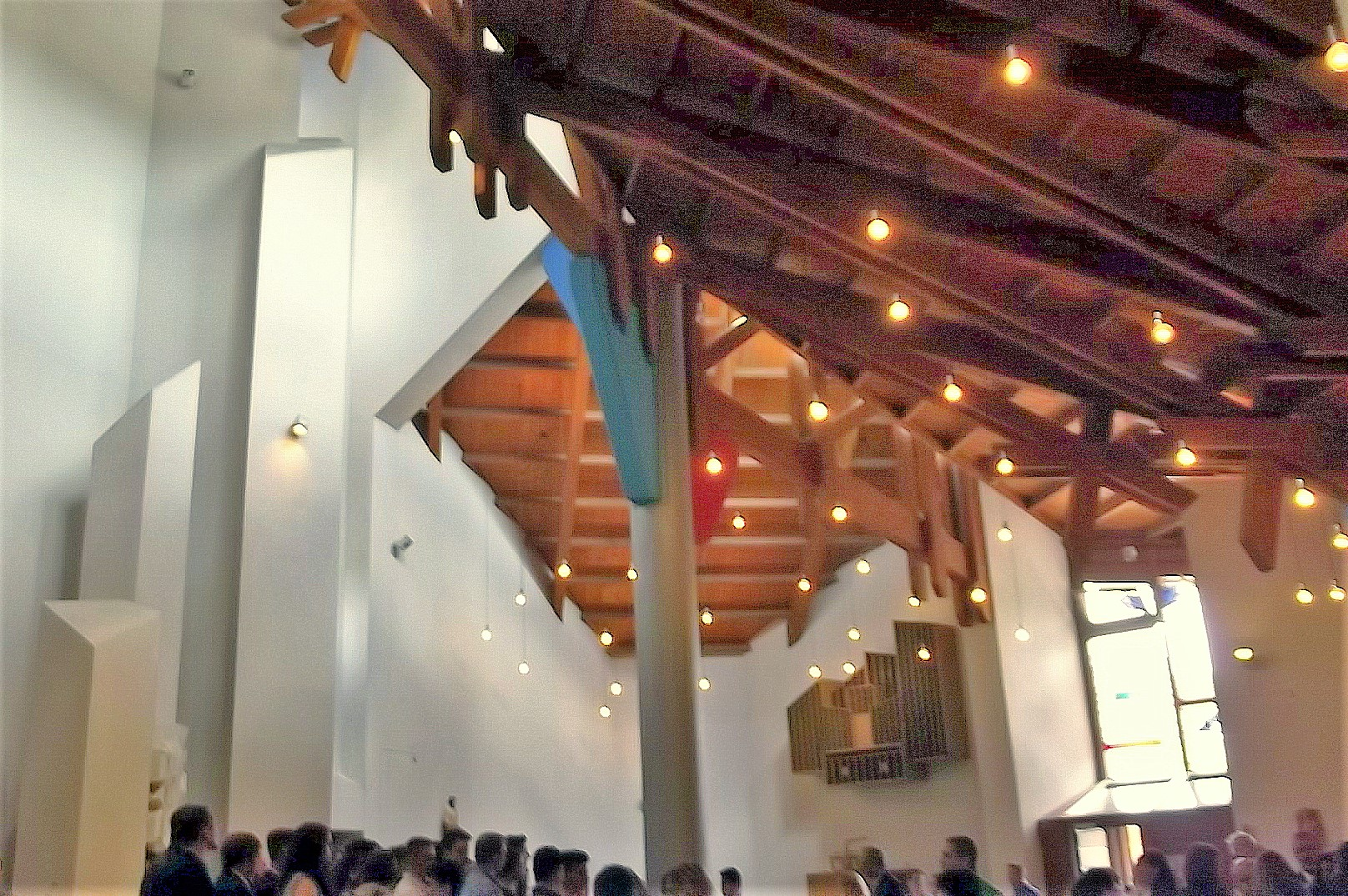 Interior of the roman catholic church in Steinrausch, Saarland, Germany